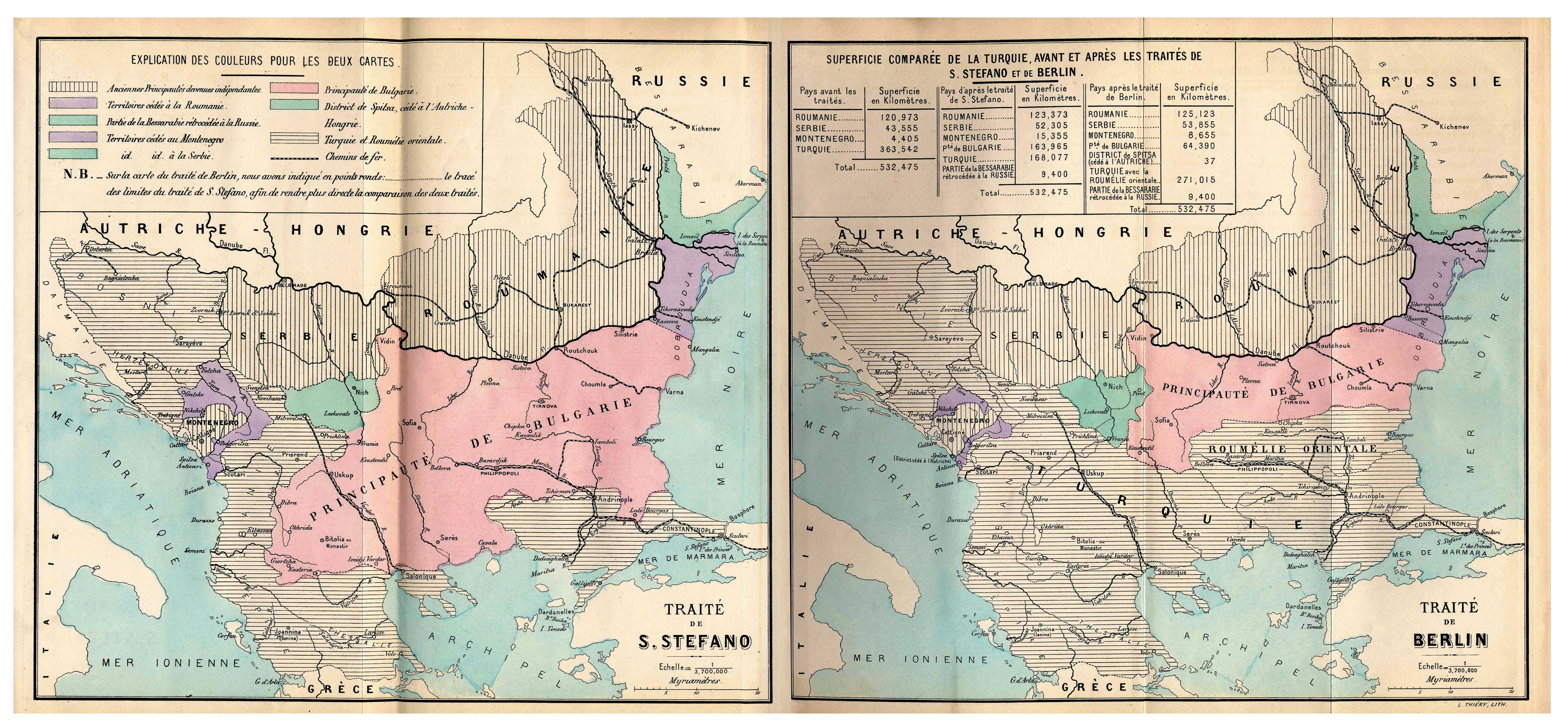 The maps of San Stefano and Berlin (1878) This media file is produced by Wikipedian in Residence in Category:Wikipedian in Residence at DARM in 2016.